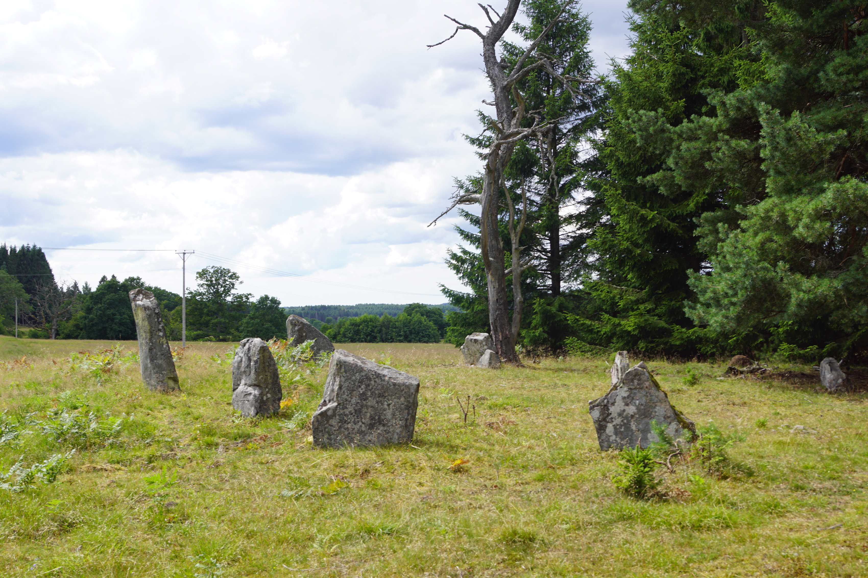 Stone circle in Hålanda socken, Ale Municipality, Sweden.